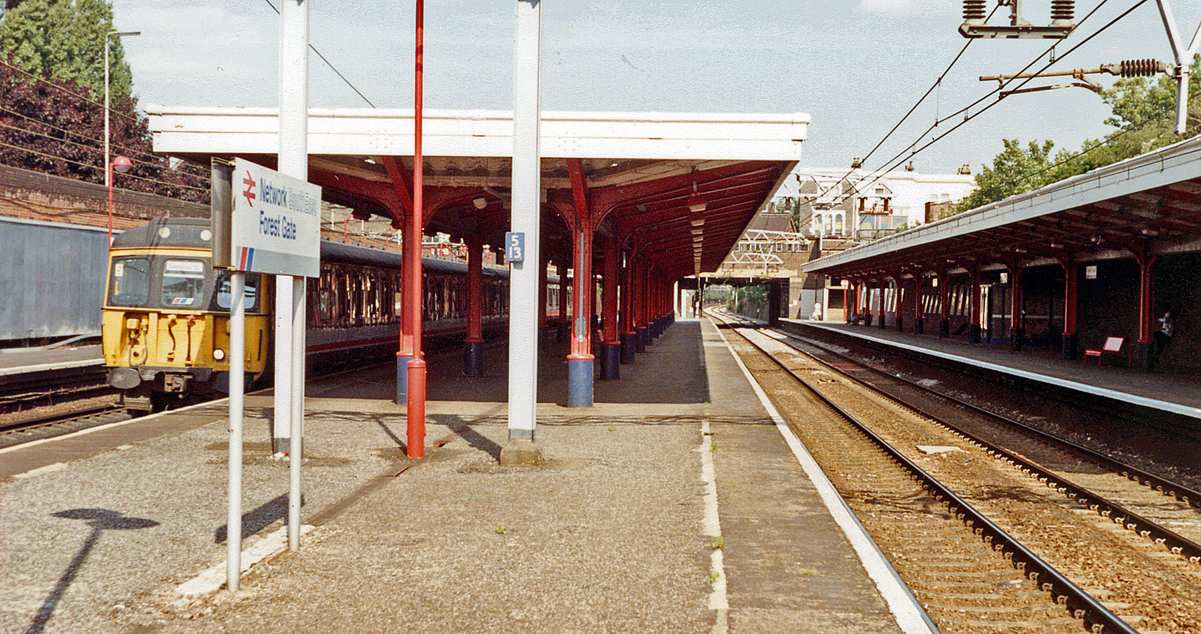 Forest Gate Station, 1991. View eastward, towards Ilford, Shenfield and the East: ex-GER London Liverpool Street - Shenfield - Chelmsford - Colchester - Ipswich - Norwich etc. main line; all electrified - since 1946 to Shenfield. At the Up Local line platform is a Class 312 EMU.